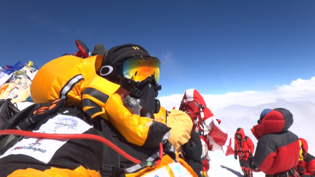 Andreas Breitfuss on the Summit of Mt Everest 2012